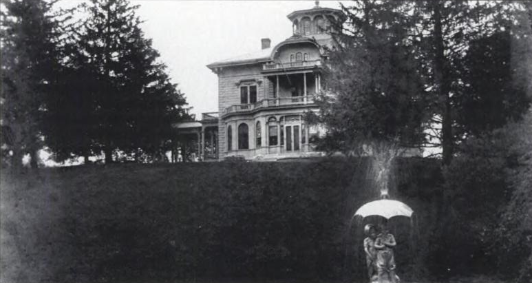 Loring Coes' 25 room mansion which was located at 1049 Main St. in Worcester, MA